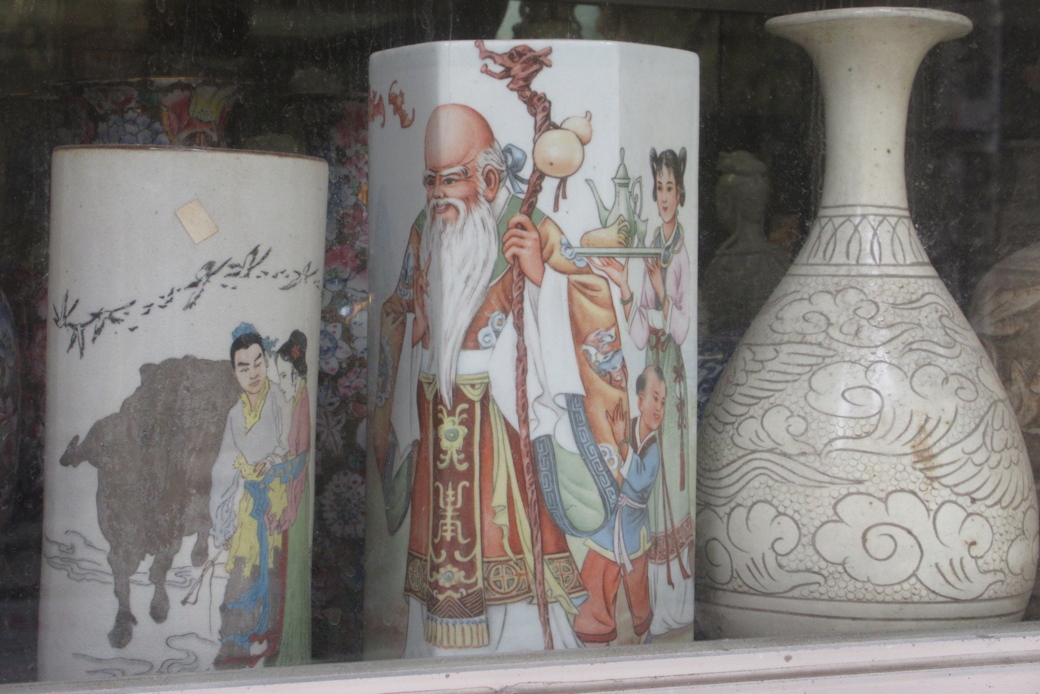 HK SW 上環 Sheung Wan 磅巷 Pound Lane shop window 2nd hand goods display 壽星公 Chinese people n gods in January 2017